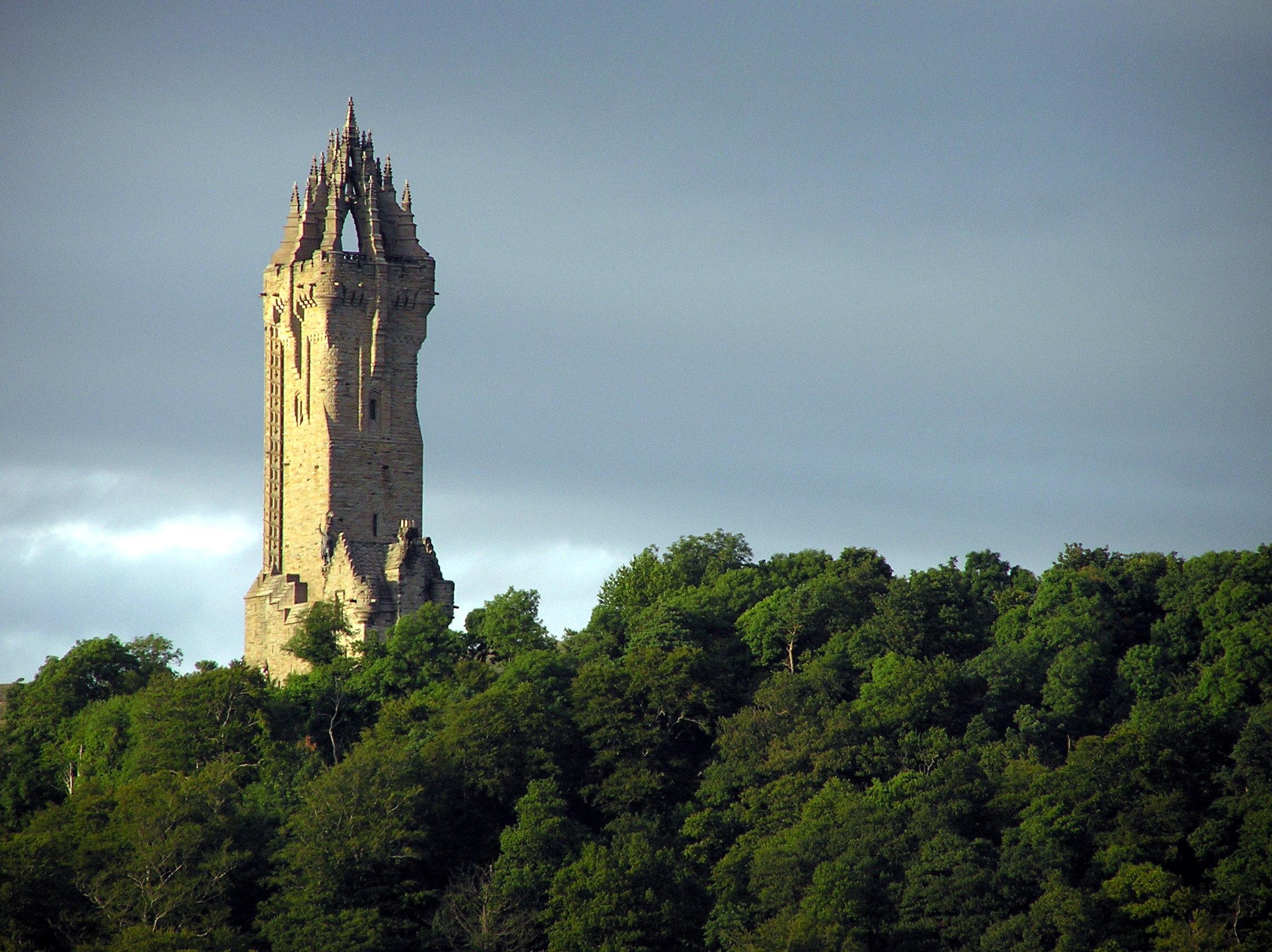 The Wallace Monument near Stirling, Scotland.